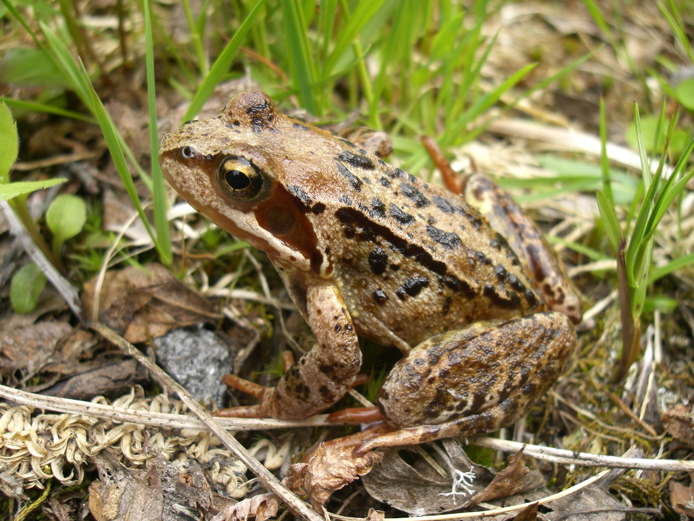 Common Frog, Norway